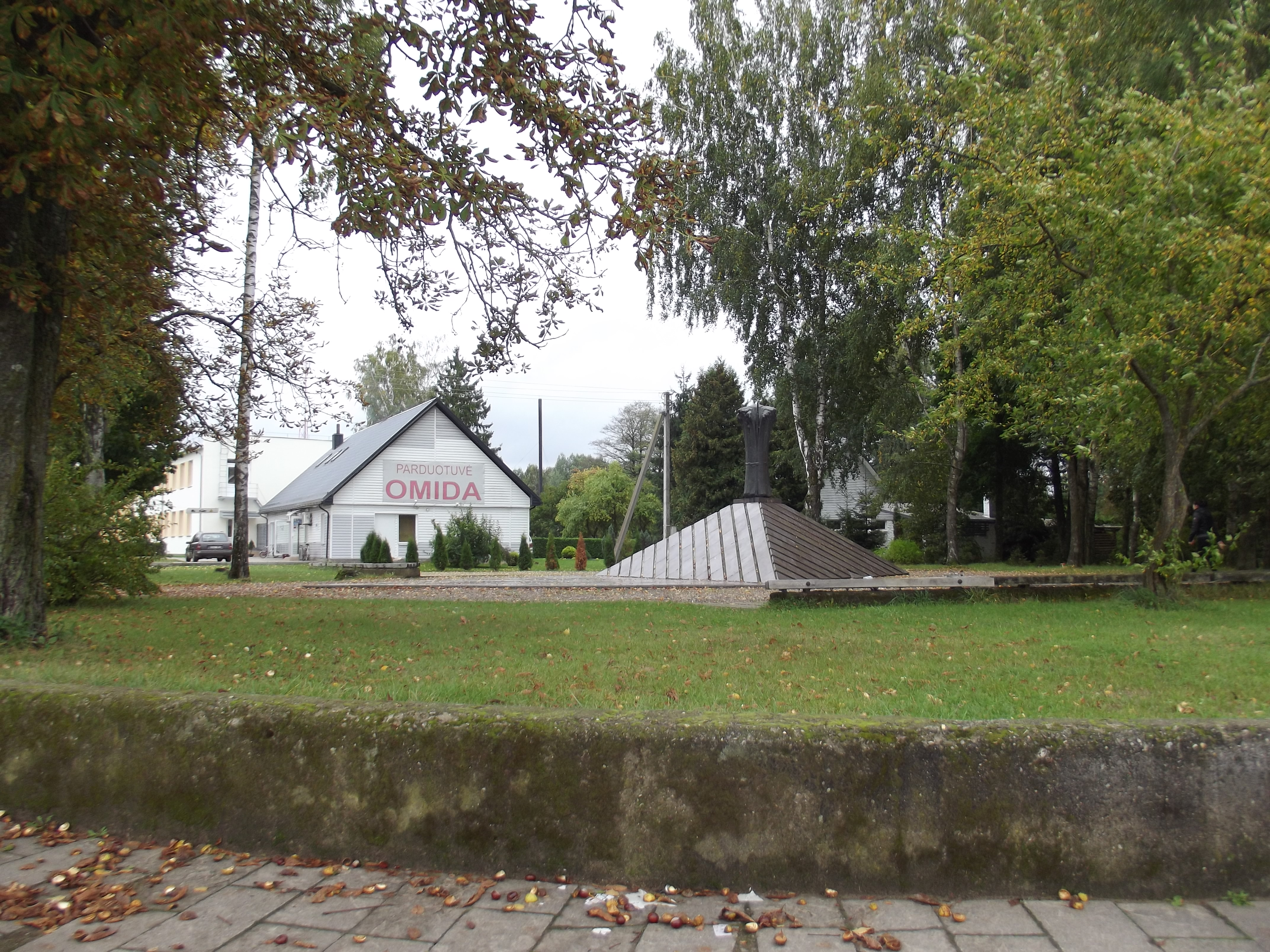 Jankai, Kazlų Rūda municipality, Lithuania